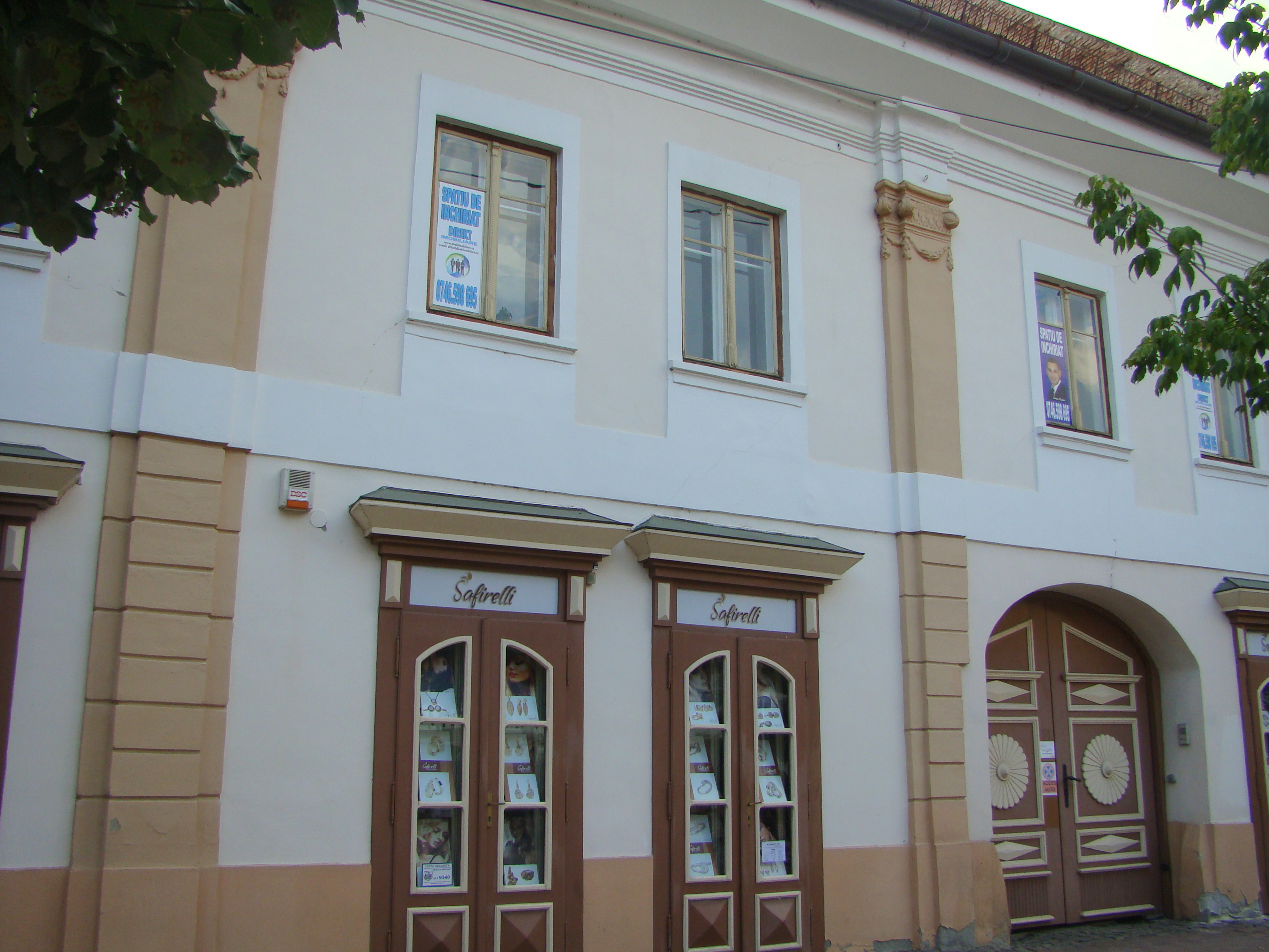 House, historic monument, in Bistrița, Liviu Rebreanu street 15